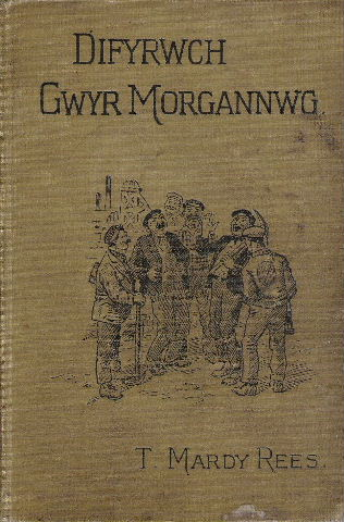 Front cover of Difyrwch Gwyr Morgannwg, a collection of humorous Welsh-language short stories about the life of Glamorgan miners by T. Mardy Rees (Caernarfon, n.d. = c.1918-1920).